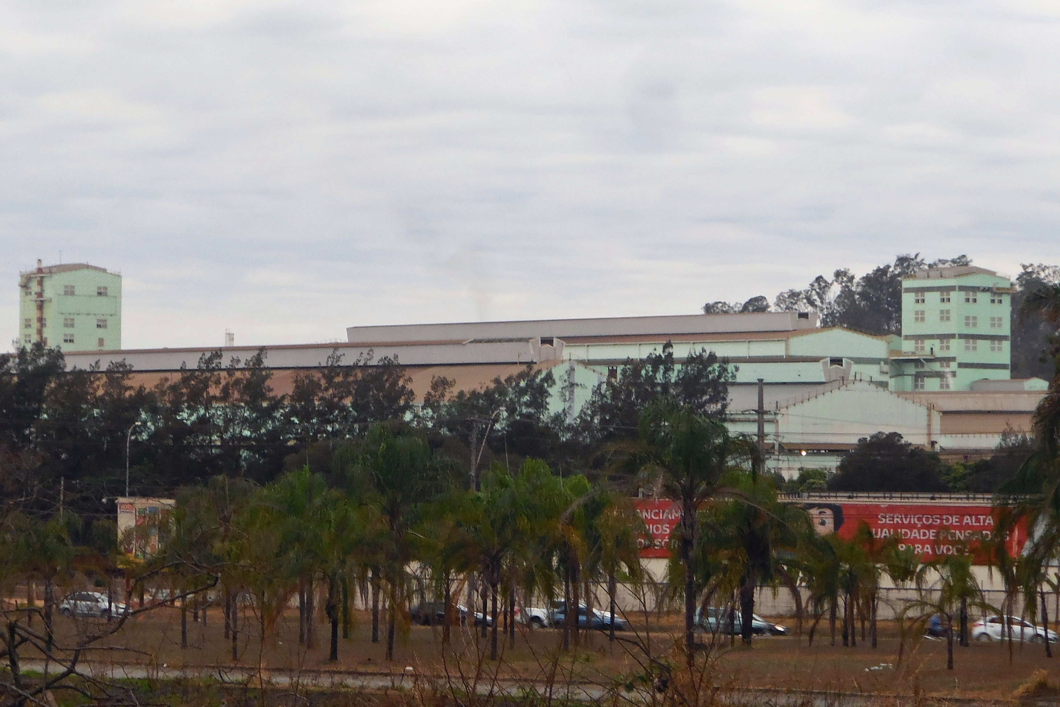 Partial view of the industrial core of the Usiminas, in Ipatinga, Minas Gerais, Brazil.